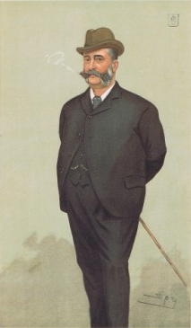 Caricature of Sir George Carlyon Hughes Armstrong, 1st Baronet. Caption read "The Globe".